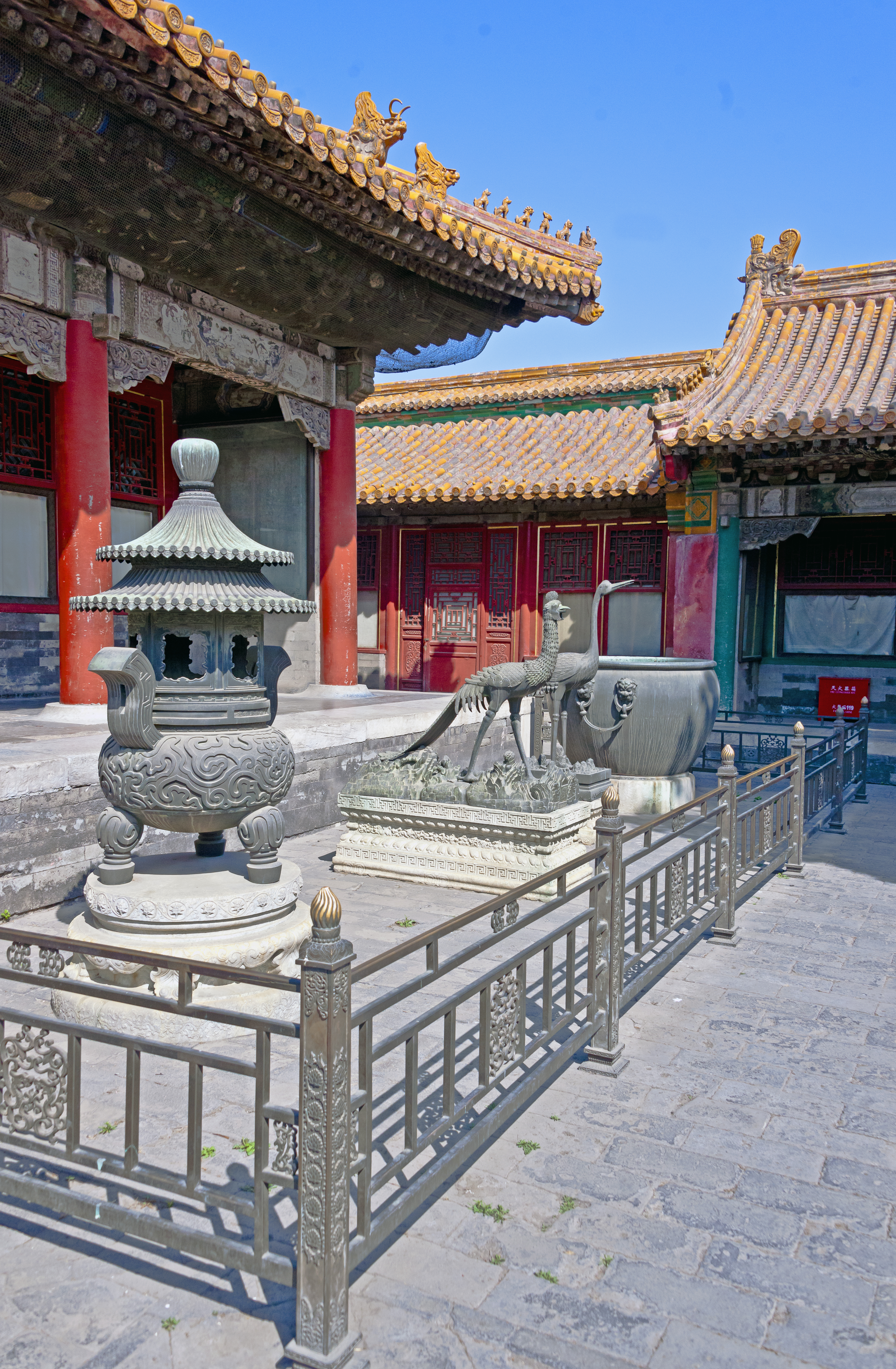 Metal urns and statues of cranes in a courtyard of the Six Western Palaces — at the Forbidden City in Beijing.